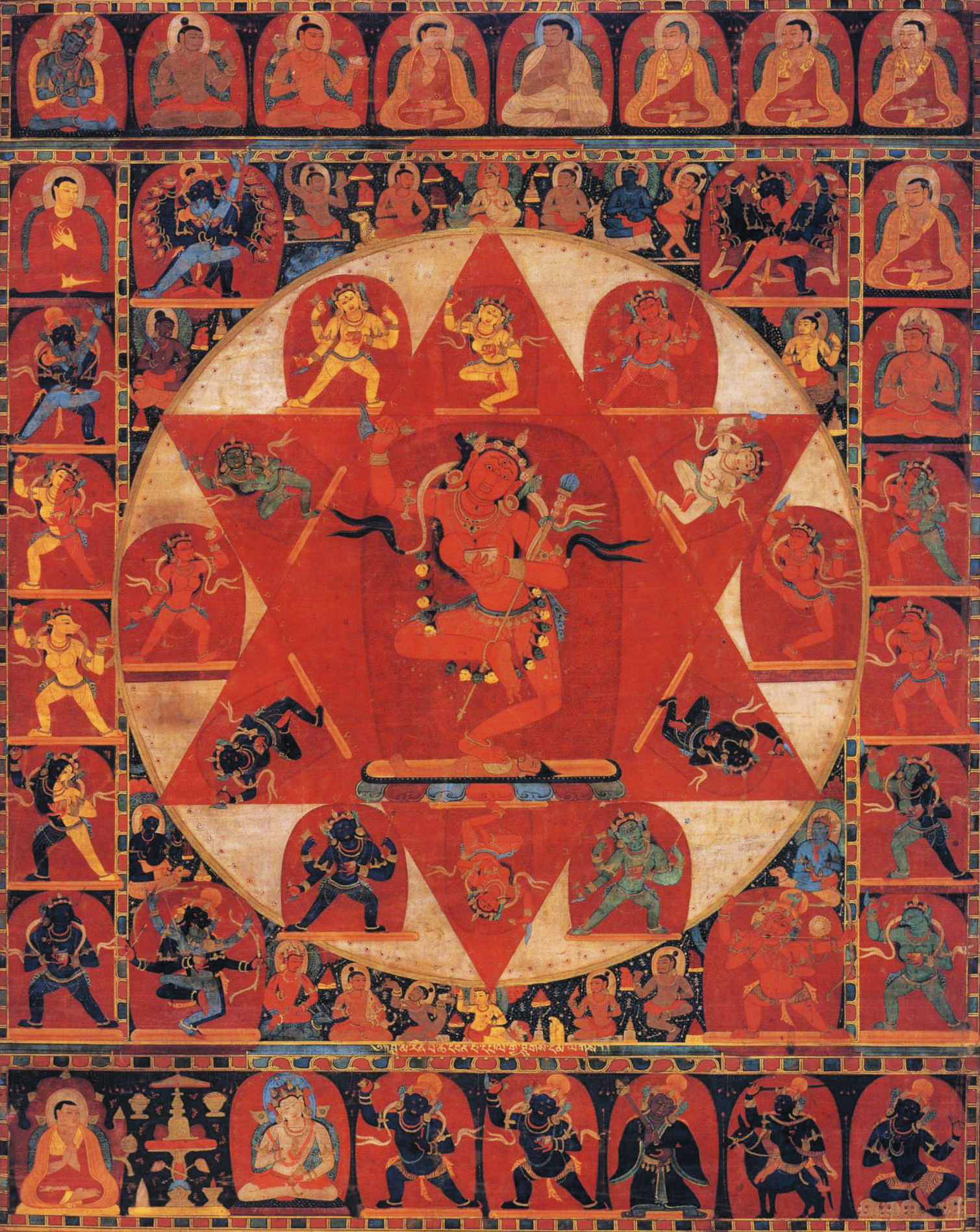 14th century Tibetan thangka painting of the Mandala of Vajravarahi